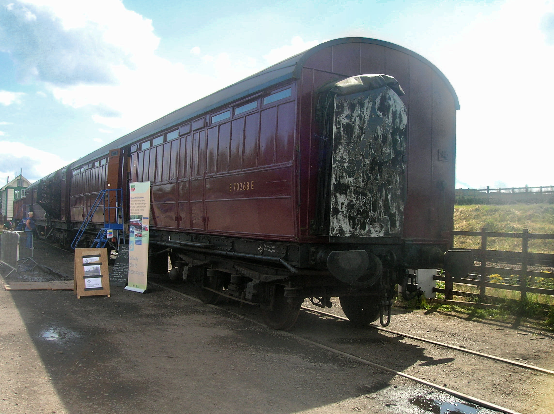 A picture of a Gresley POT for the page List of Great Central Railway locomotives and possibly the Commons.